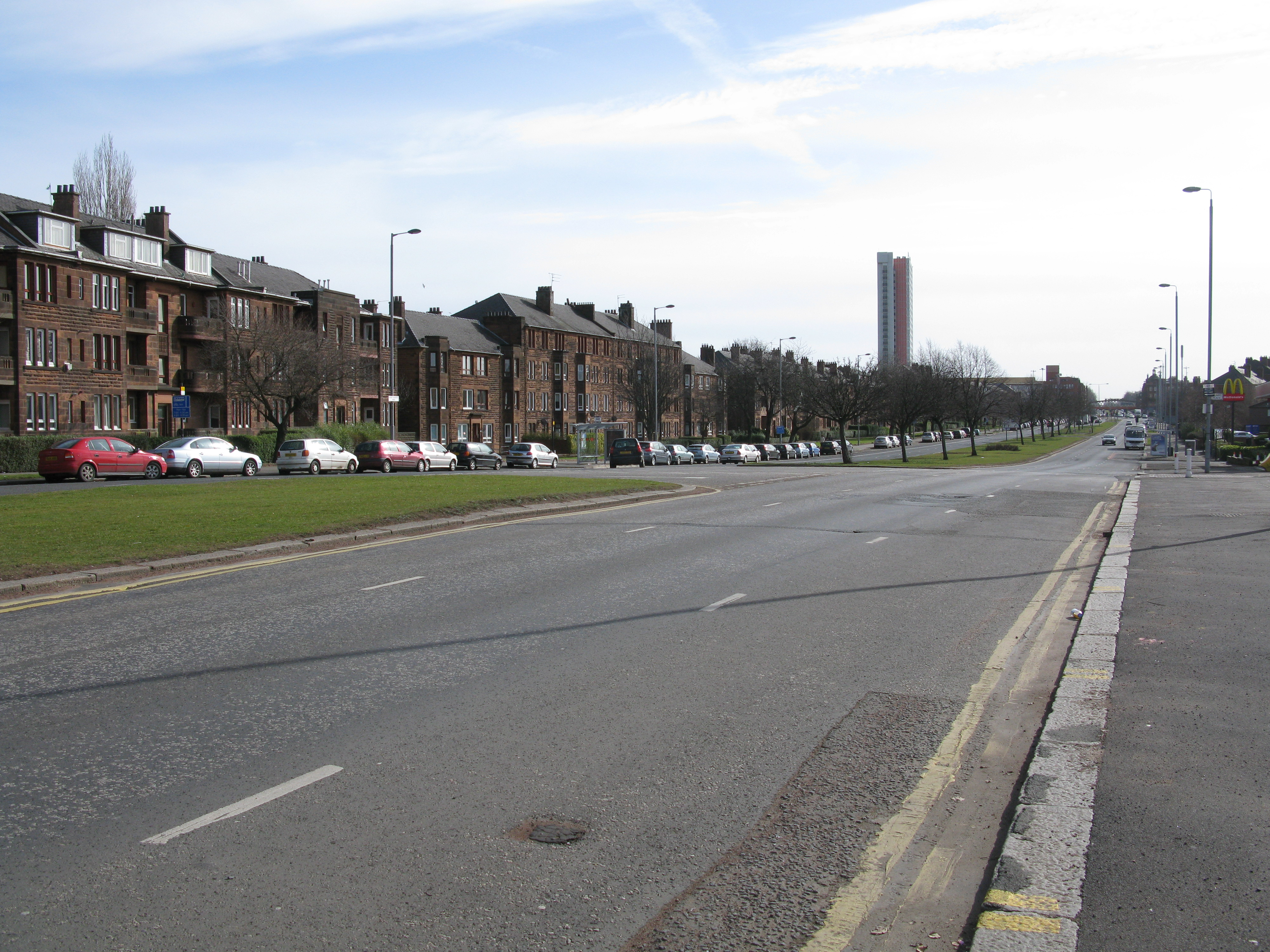 Great Western Road, Glasgow (A82) Looking east along Great Western Road towards Anniesland Cross in the distance.